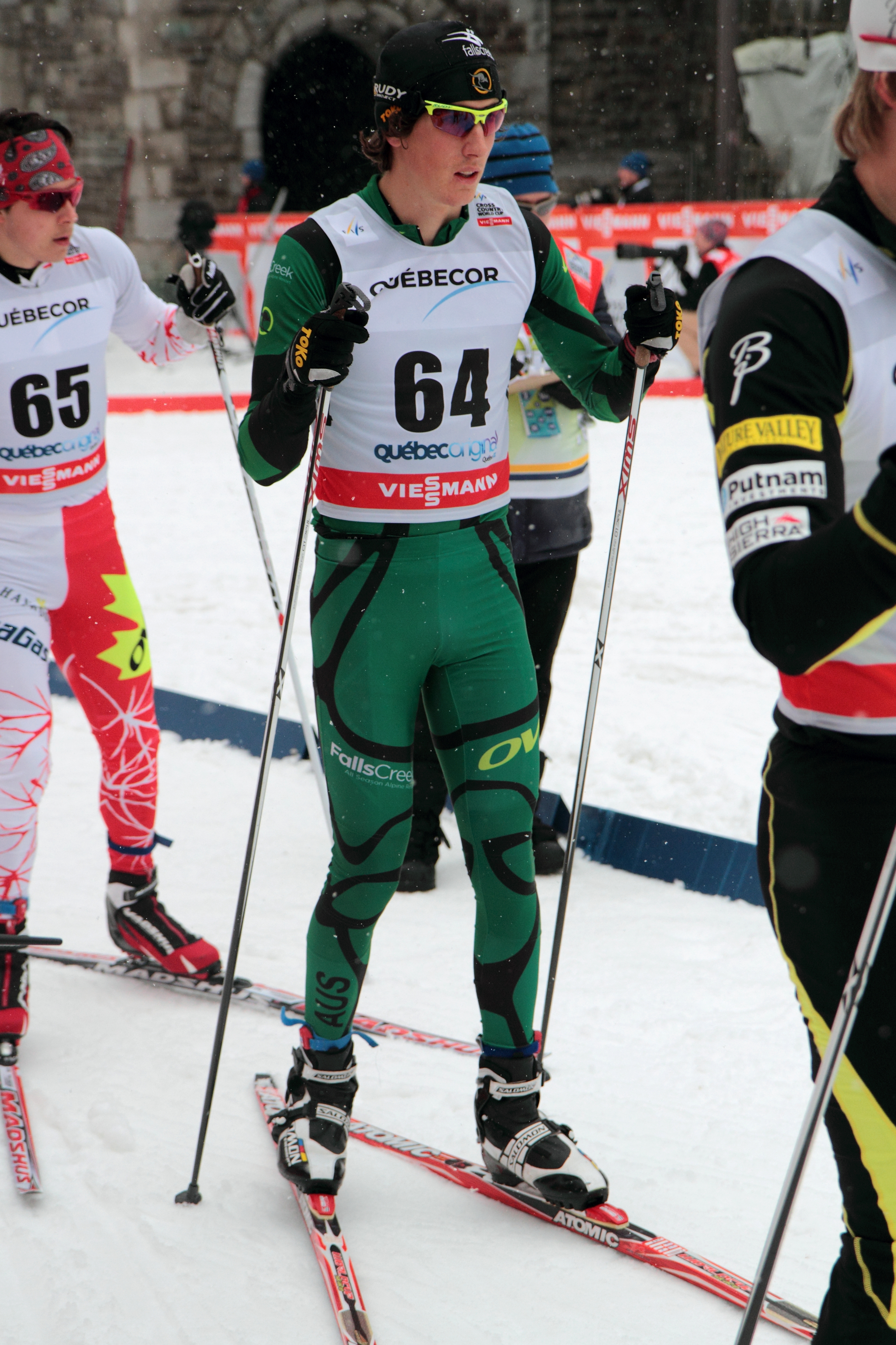 Callum Watson, FIS Cross-Country World Cup 2012, Quebec, Canada.